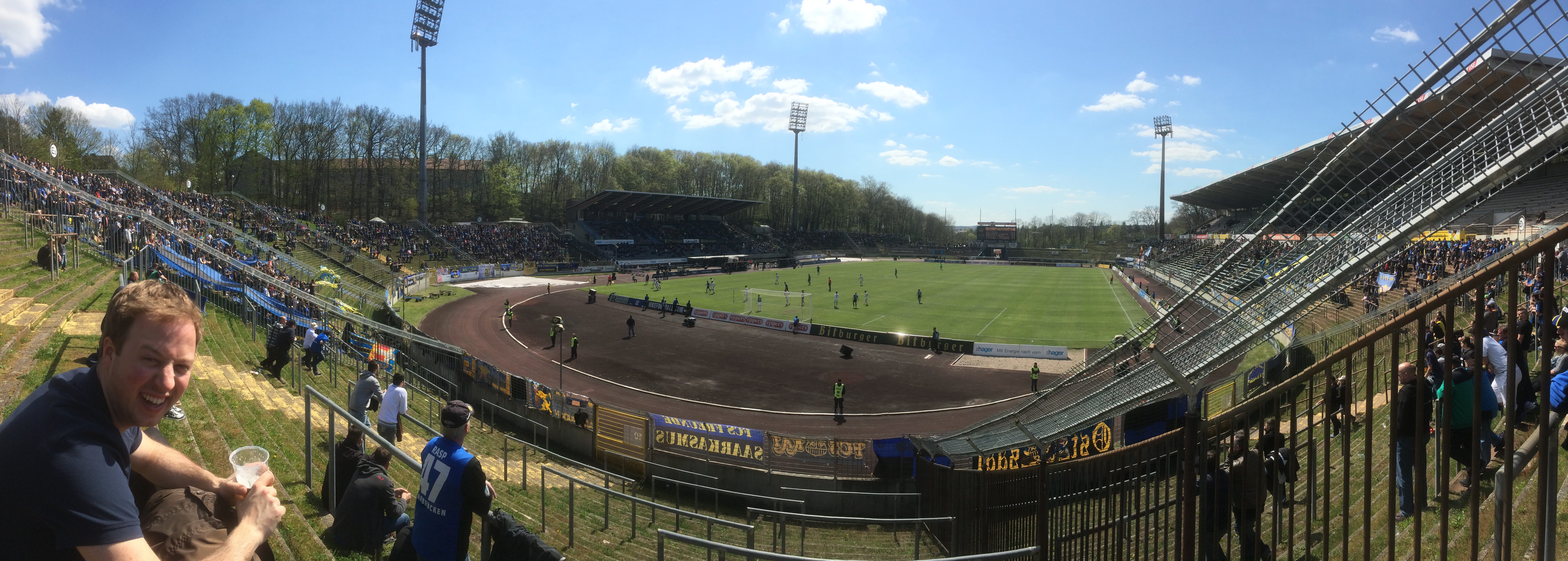 Panorama Ludwigsparkstadion from Block E